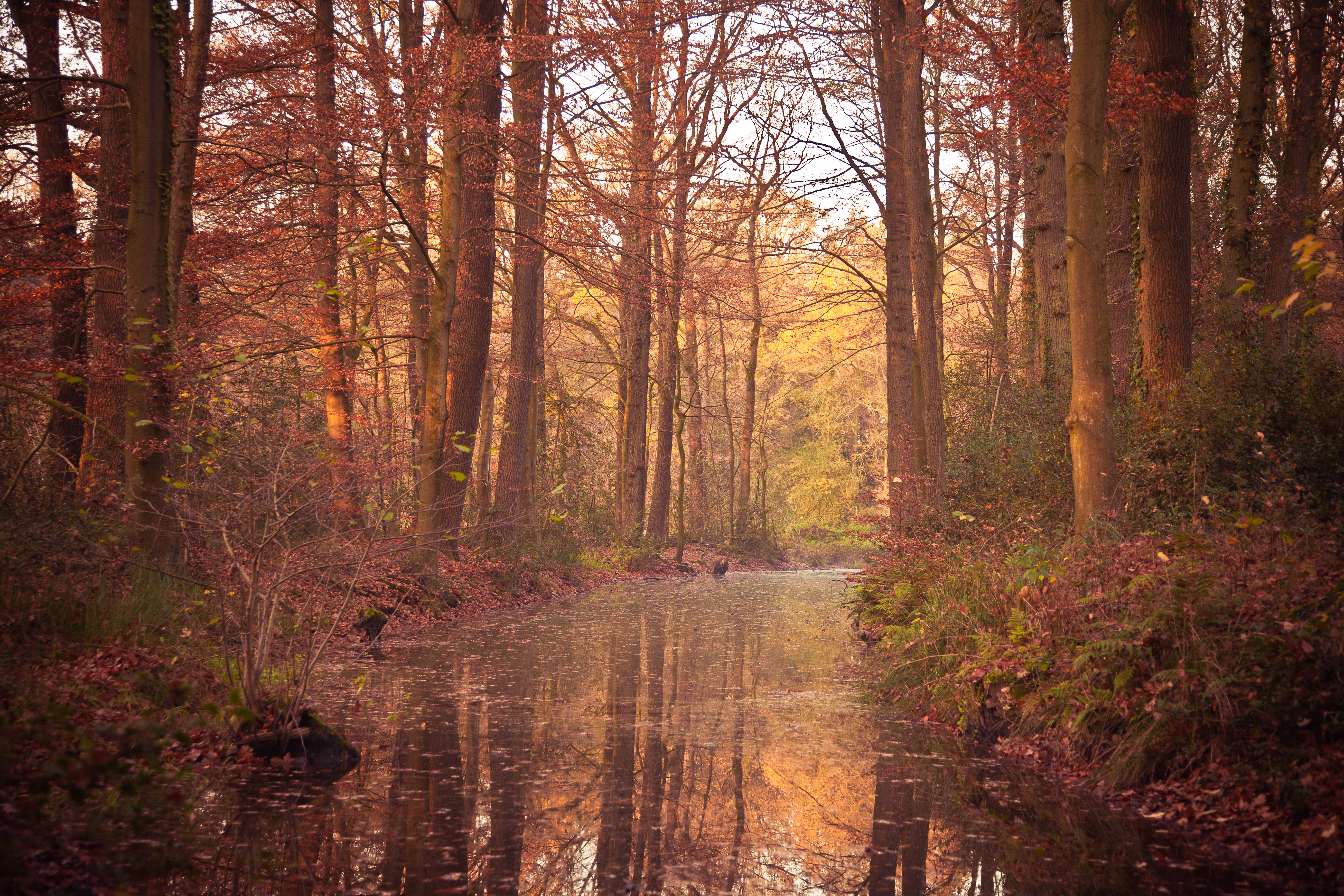 Smoddebos-Duivelshof